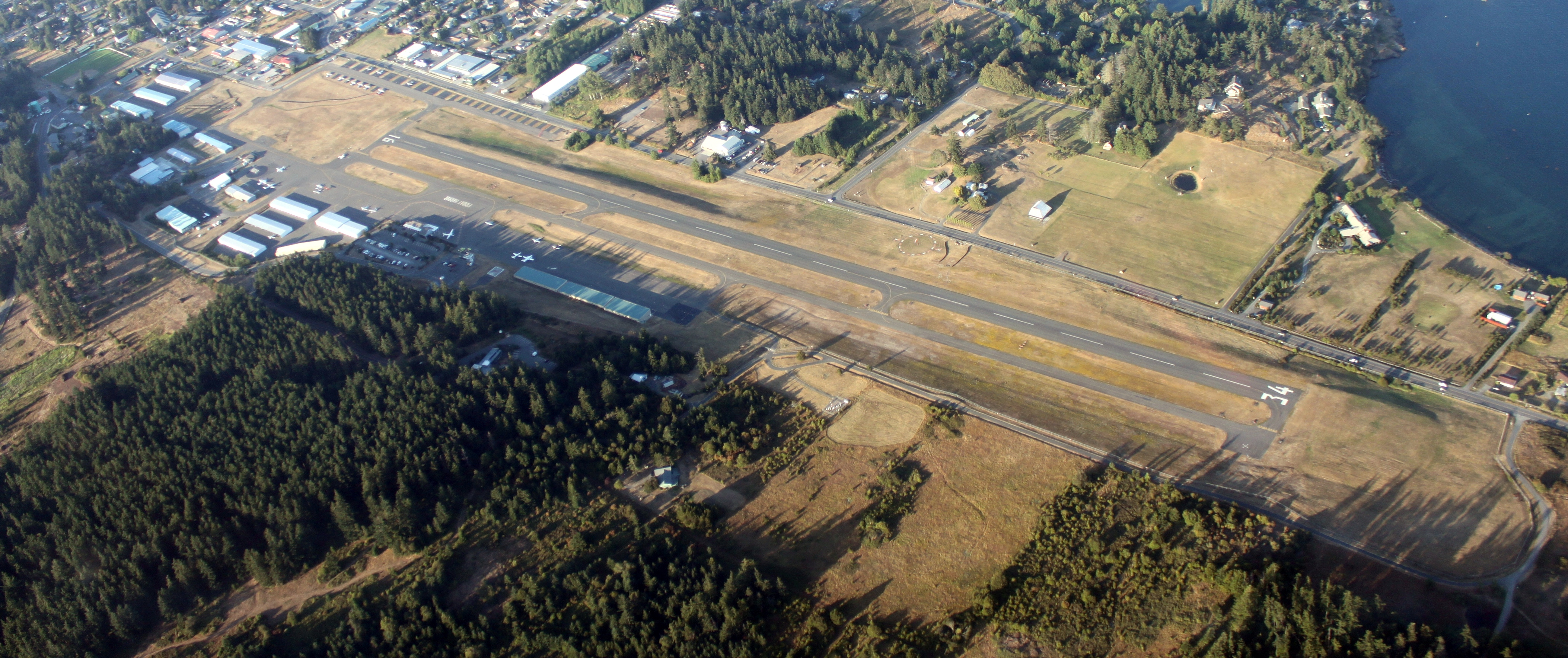 An aerial view of the airport in Friday Harbor, Washington.